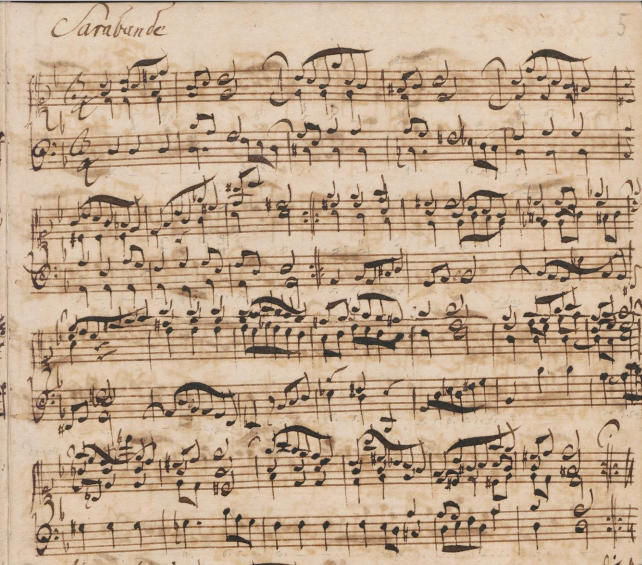 Partitura: Sarabande from Keyboard suite in d, BWV 812, manuscript by unknown author.